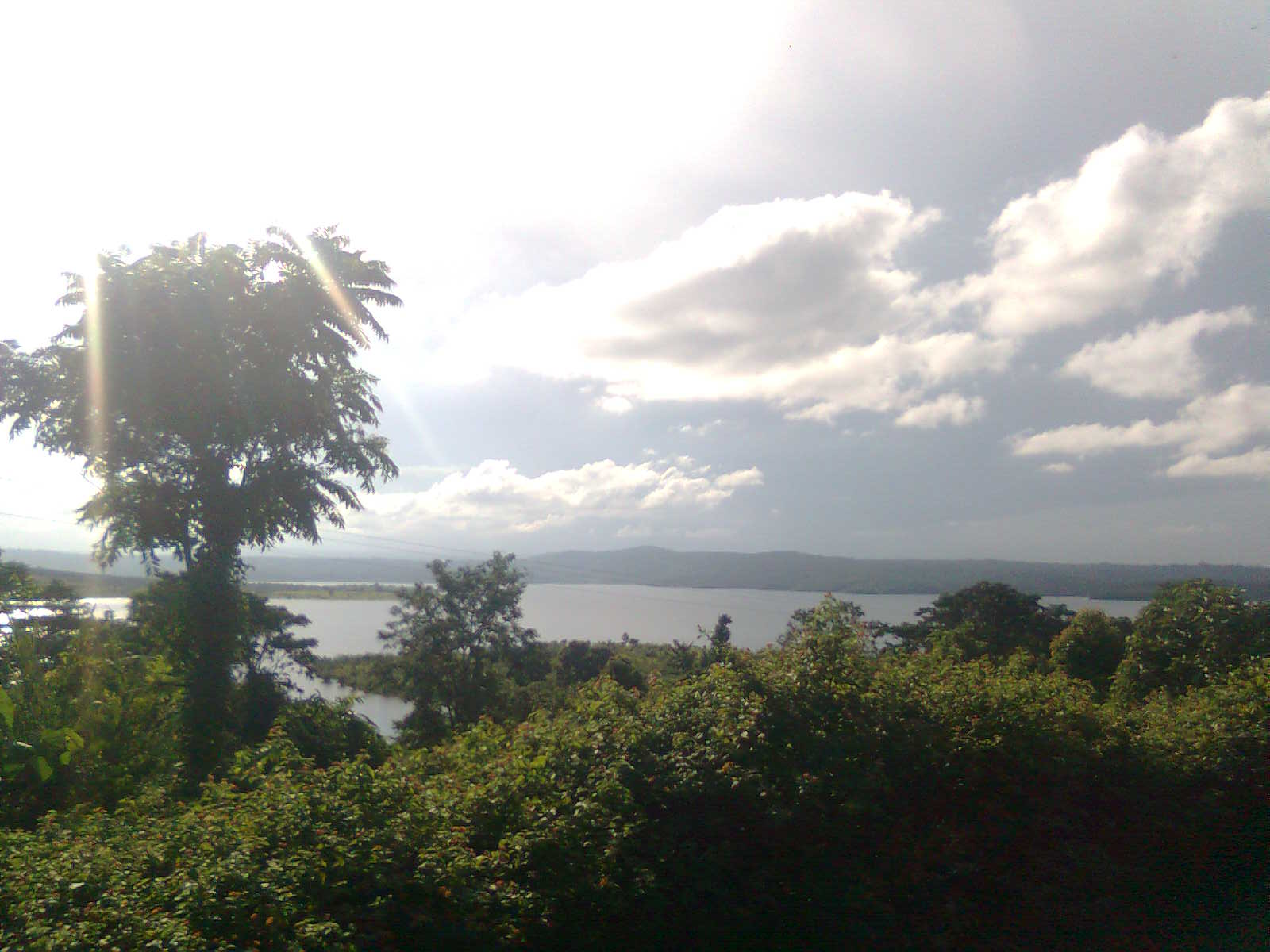 BEAUTY OF NATURE. A SNAP FROM UMRUNGSO